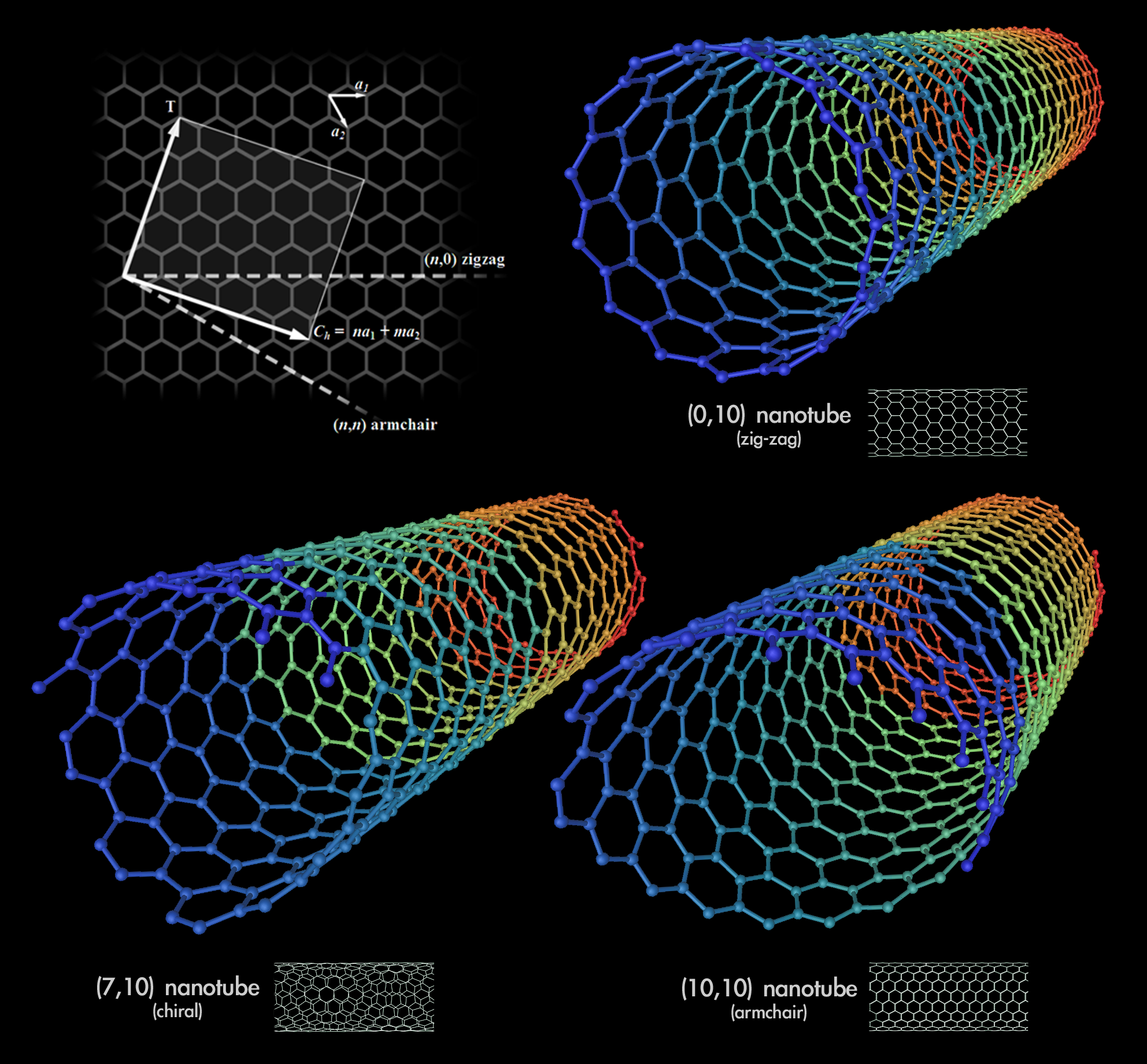 Summary A diagram showing the types of carbon nanotubes. (Created by Michael Ströck (mstroeck) on February 1, 2006. Released under the GFDL). The (n,m) nanotube naming scheme can be thought of as a vector (Ch) in an infinite graphene sheet that describes how to 'roll up' the graphene sheet to make the nanotube. T denotes the tube axis, and a1 and a2 are the unit vectors of graphene in real space. If m=0, the nanotubes are called zigzag. If n=m, the nanotubes are called armchair. Otherwise, they are called chiral.